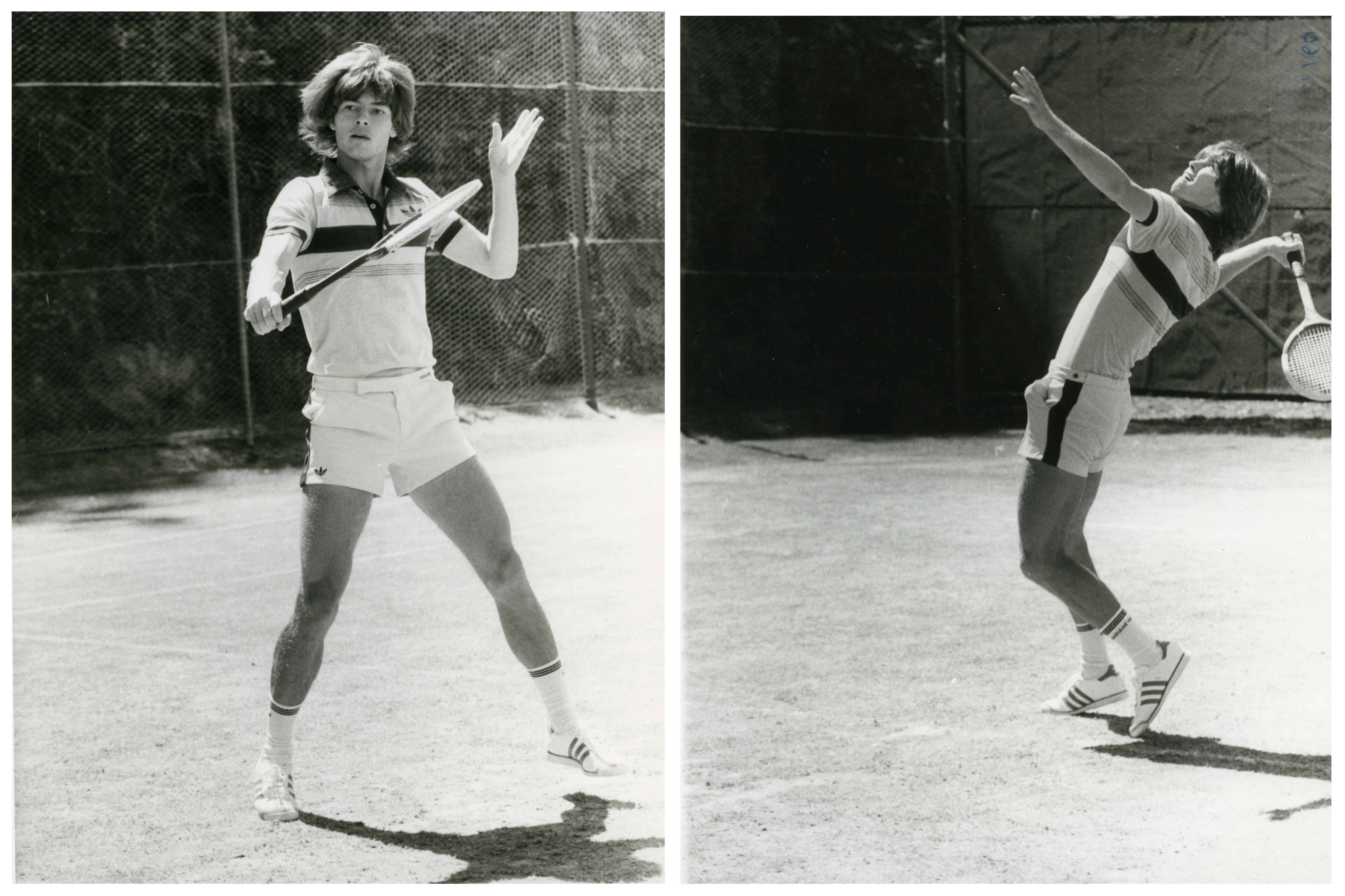 Chris Lewis was born on March 9 1957 in Auckland, New Zealand. Lewis became the third player from New Zealand to reach the finals of a Grand Slam Singles title where he was runner up at Wimbledon in 1983, losing out to John McEnroe. He is the last player from New Zealand to reach the finals of a Grand Slam title as of 2016. He won 3 singles titles and achieved a career-high singles ranking of World No. 19 in April 1984. He also won 8 doubles titles during his 12 years on the tour. The images shown here were taken by the National Publicity Studios in Wellington in February 1980. They show Lewis practicing ahead of a David Cup match for New Zealand. The purpose of the National Publicity Studios was to provide advice to government departments and state agencies on the provision of photographic, art, and display services and in particular to assist in the production of publicity material aimed at conveying a favourable image of New Zealand. The National Publicity Studios was divided into two main sections: Photographic - comprising photographers, a laboratory, a photo library and facilities for audio-visual productions & Art - comprising graphic art, display art, display workshops and silkscreen. For further enquiries please Reference: AAQT 6539 W3537 16 L8/12/3/116 & L8/12/3/117 For updates on our On This Day series and news from Archives New Zealand, follow us on Twitter Material from Archives New Zealand